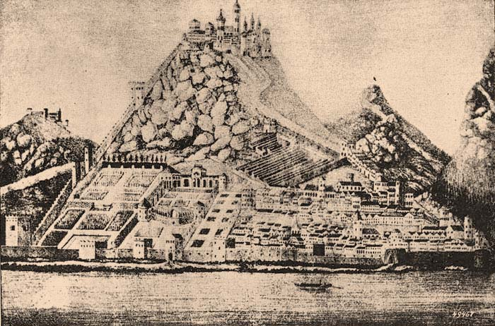 Visegrád around 1480, contemporary woodcut Visegrád Mátyás király korában (1480 körül). Korabeli metszet az Országos Képtárból.